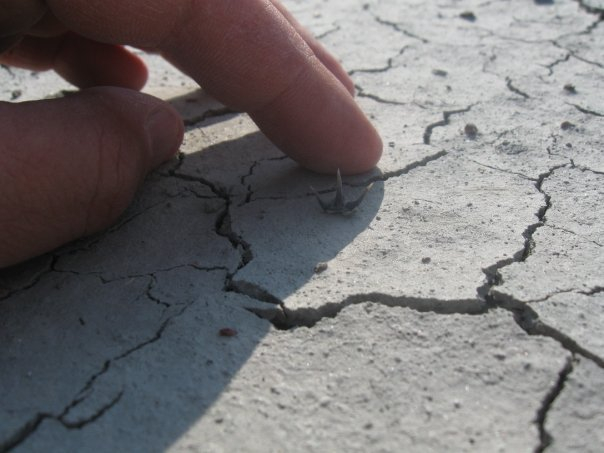 Chlamydoselachus lawleyi tooth discovery.